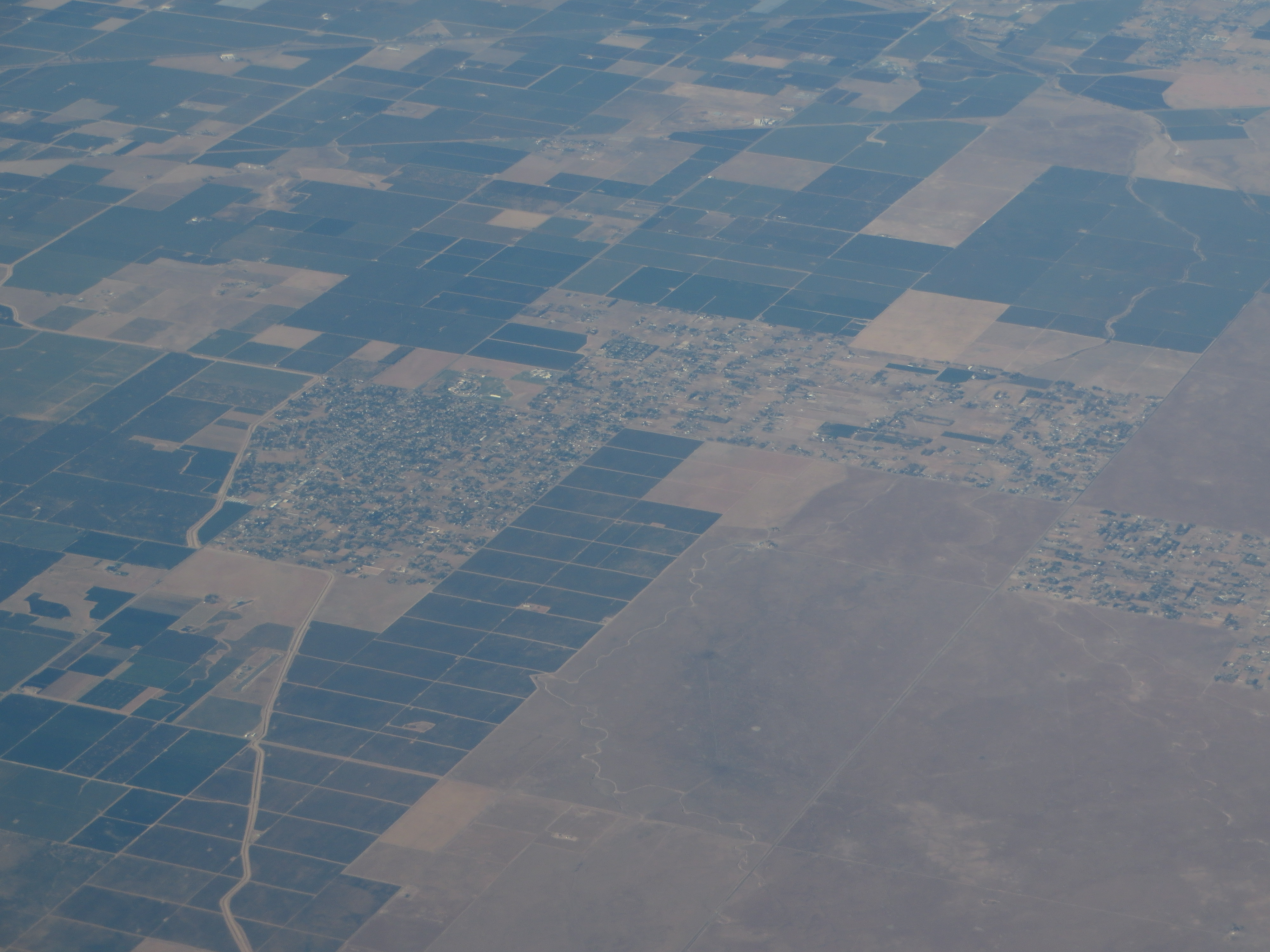 Bonadelle Ranchos-Madera Ranchos is a census-designated place (CDP) in Madera County, California, United States. It is part of the Madera–Chowchilla Metropolitan Statistical Area. The population was 8,569 at the 2010 census, up from 7,300 at the 2000 census. The Bonadelle Ranchos is often regarded as a Valley-Foothill transitional zone, because its elevation is higher than average for valley but slightly too low to be considered part of the Sierra foothills. Immediately Northeast lies the rugged foothills of the Sierra Nevada range. Its environment corresponds, showing qualities of a transition zone. The Northeast portion of the area is the highest in elevation,and small tabletop hills are present: most notably Adobe Hill, which lies at an elevation of 640 feet. All throughout the area, there is large, rolling hills. Multiple creeks run through the area, but none are large enough to bring constant flow. The creeks include Little Dry Creek, Bonadelle Creek, Cottonwood Creek, and Root Creek. Many of these waterways flow in the winter months, when rainfall and snow filter down from the nearby foothills. There are many seasonal ponds in the area, however most are too small and short-lived to offer recreational activities. Many of the wildlife is typical for this type of environment. Mammals include foxes, ground squirrels, coyotes, raccoons, skunks and occasionally bobcats and mountain lions. Dove, crows, ravens, ducks, Scrub jays, California woodpeckers, egrets, red tailed hawks, turkey vultures, and geese can be found as well.